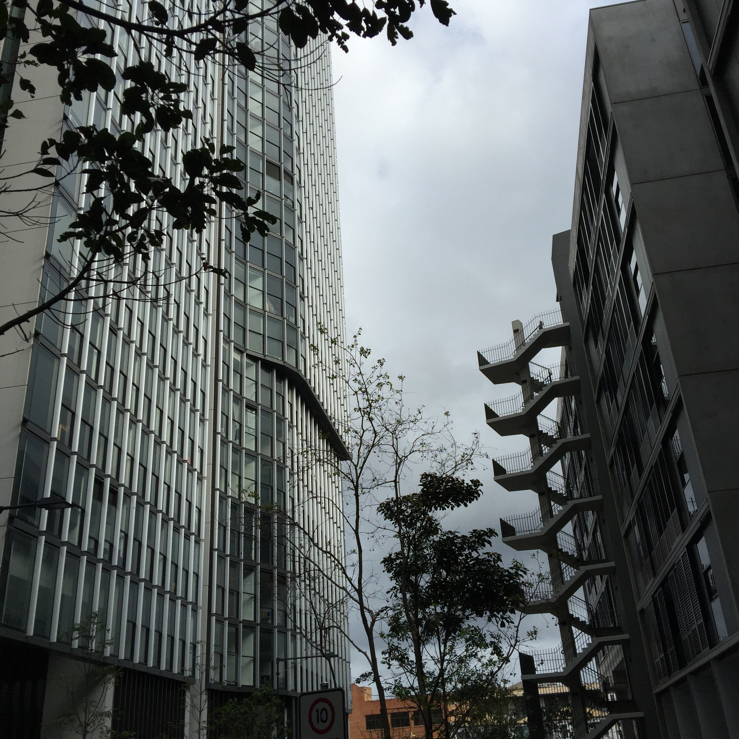 Building external facade